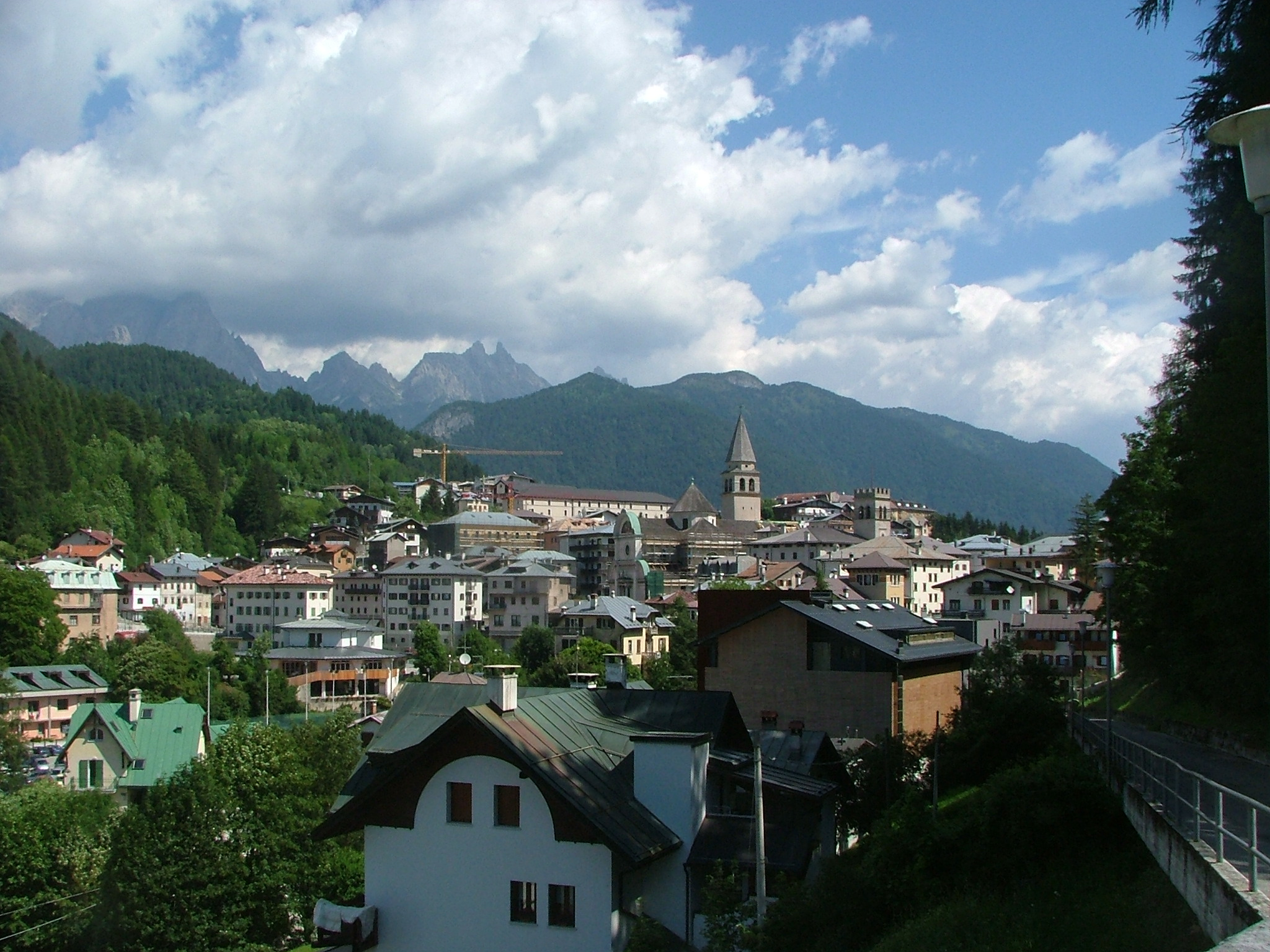 sight of Pieve di Cadore, Province of Belluno, Veneto, Italy